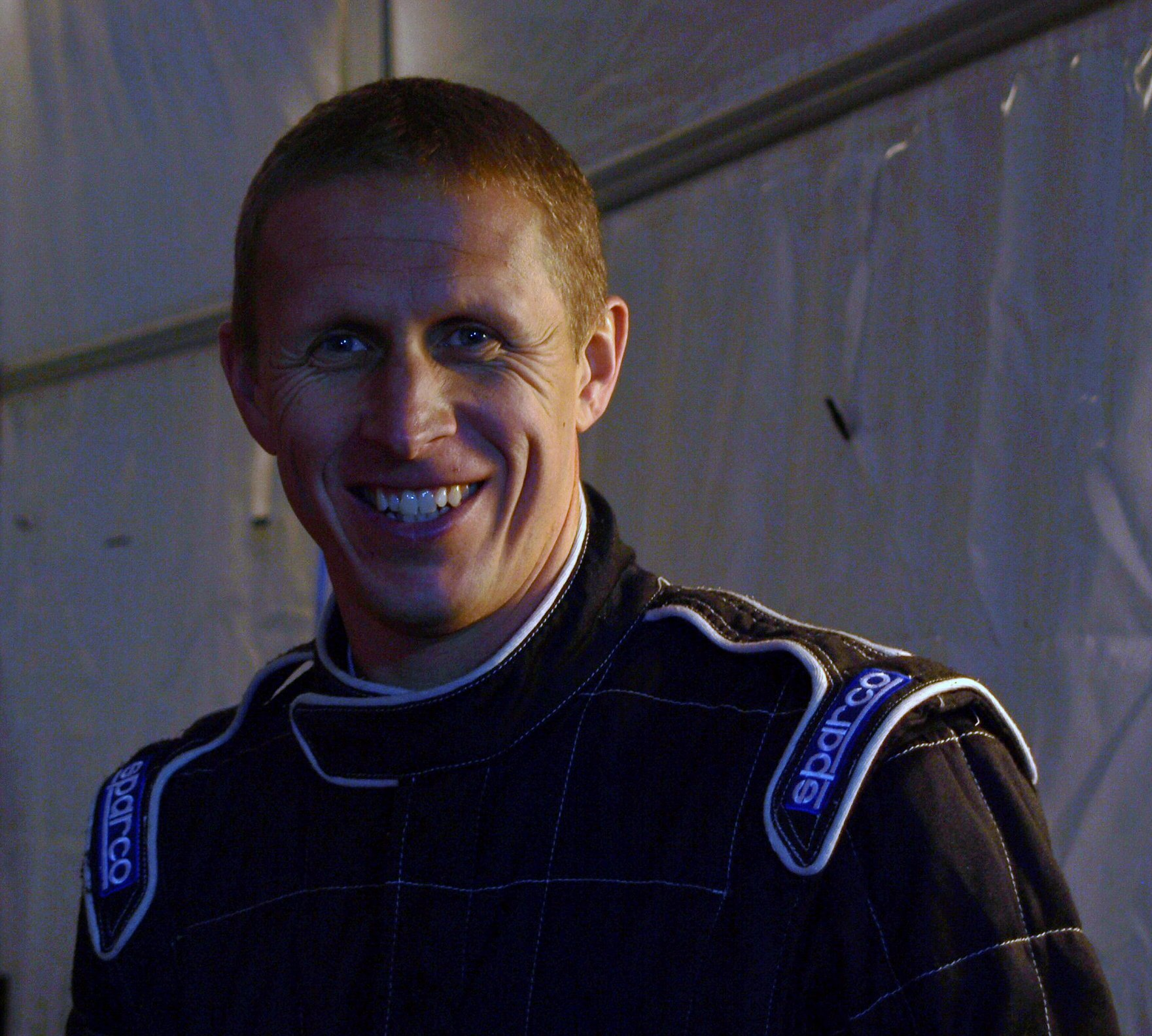 Alister at the service area on Friday evening.